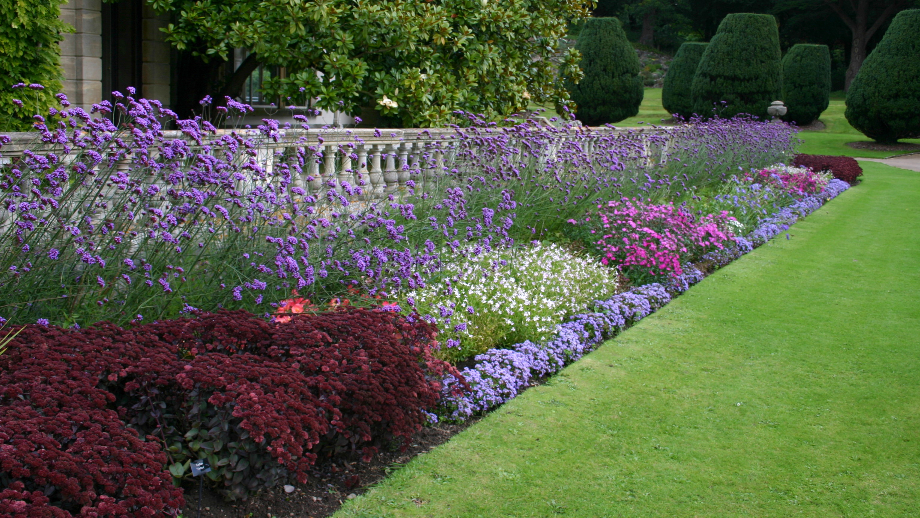 Dyffryn Gardens, Vale of Glamorgan